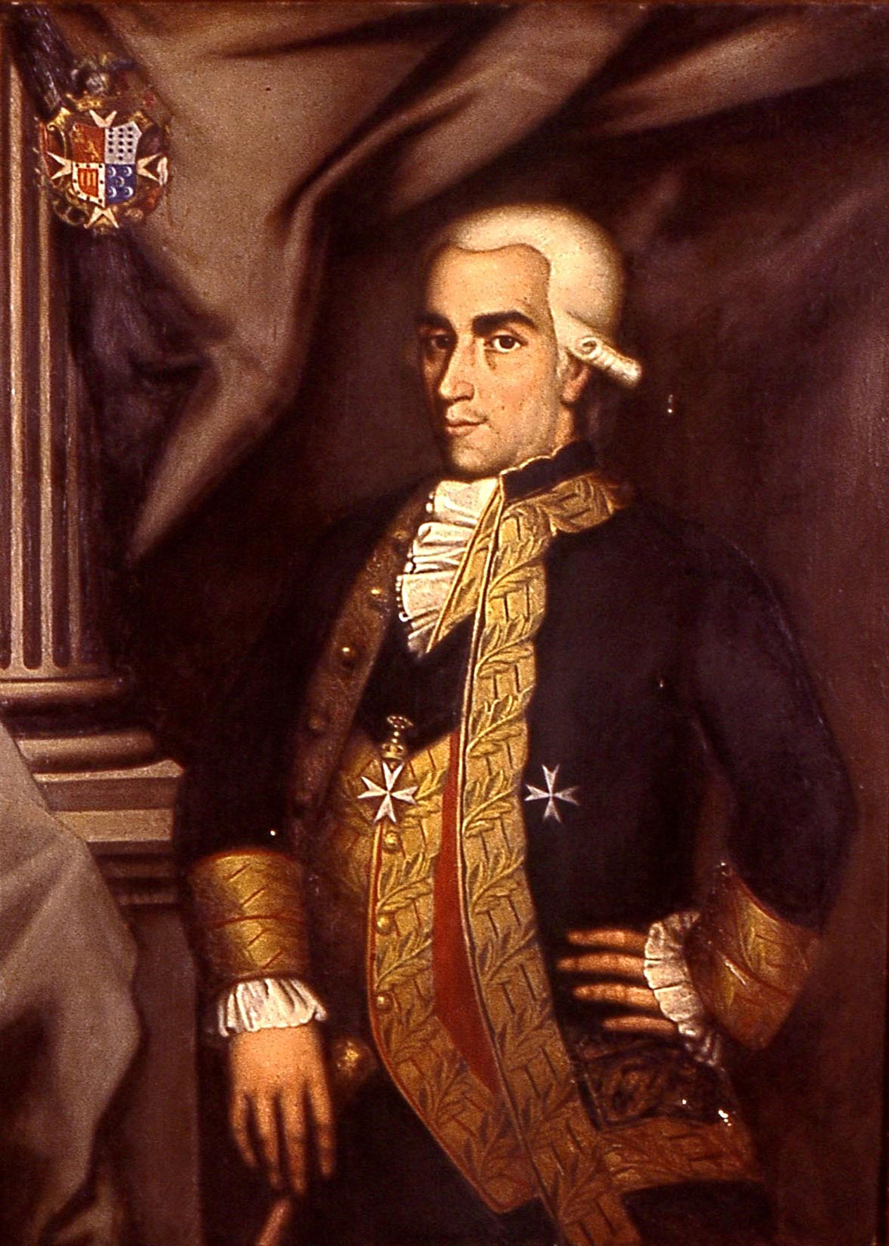 Portrait of Francisco Gil de Taboada, Viceroy of New Granada, Viceroy of Peru and member of the governing junta in Spain